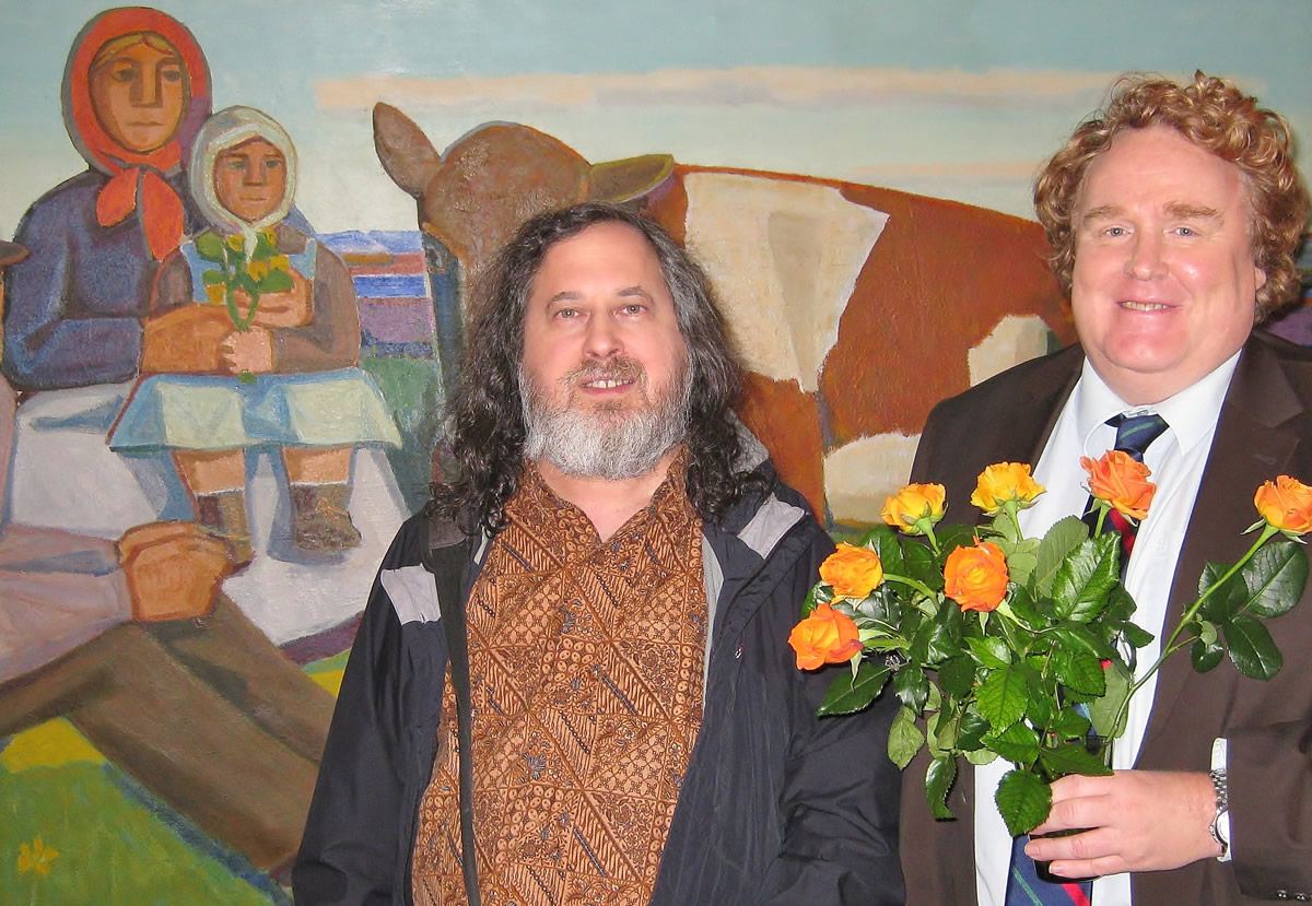 Richard Stallman and Egill Helgason in the headquarters of Icelandic National Television Station in Reykjavik, Iceland. Photo taken by Salvor Gissurardottir after a television interview